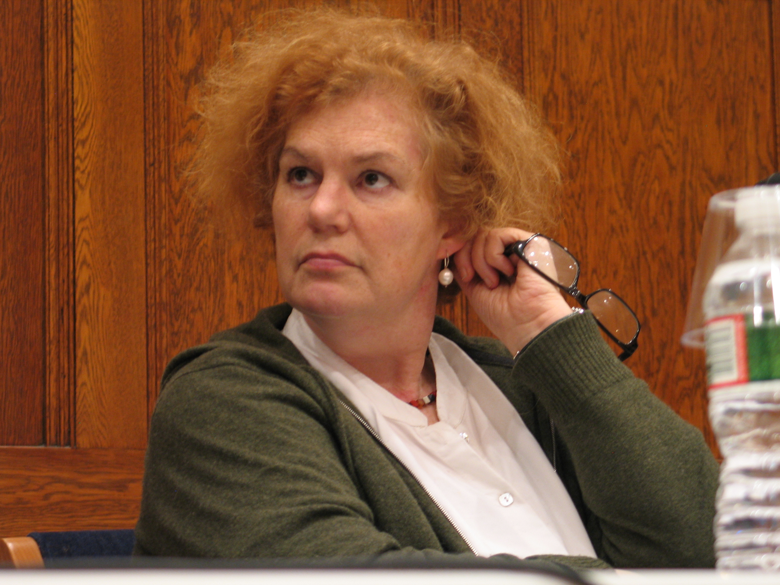 Karen Leeder at the conference “Contemporary Translation in Transition”